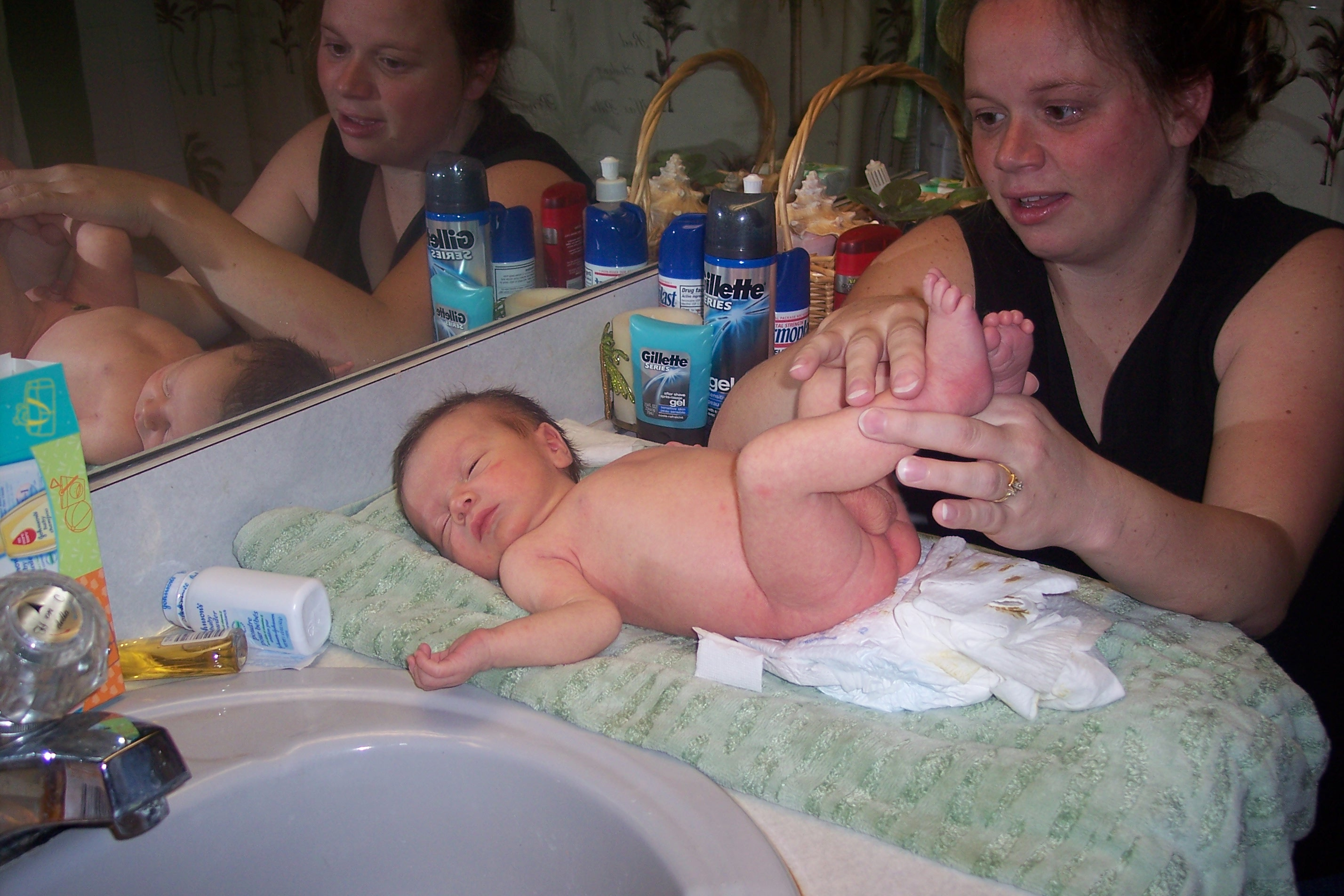 Baby to be bathed.